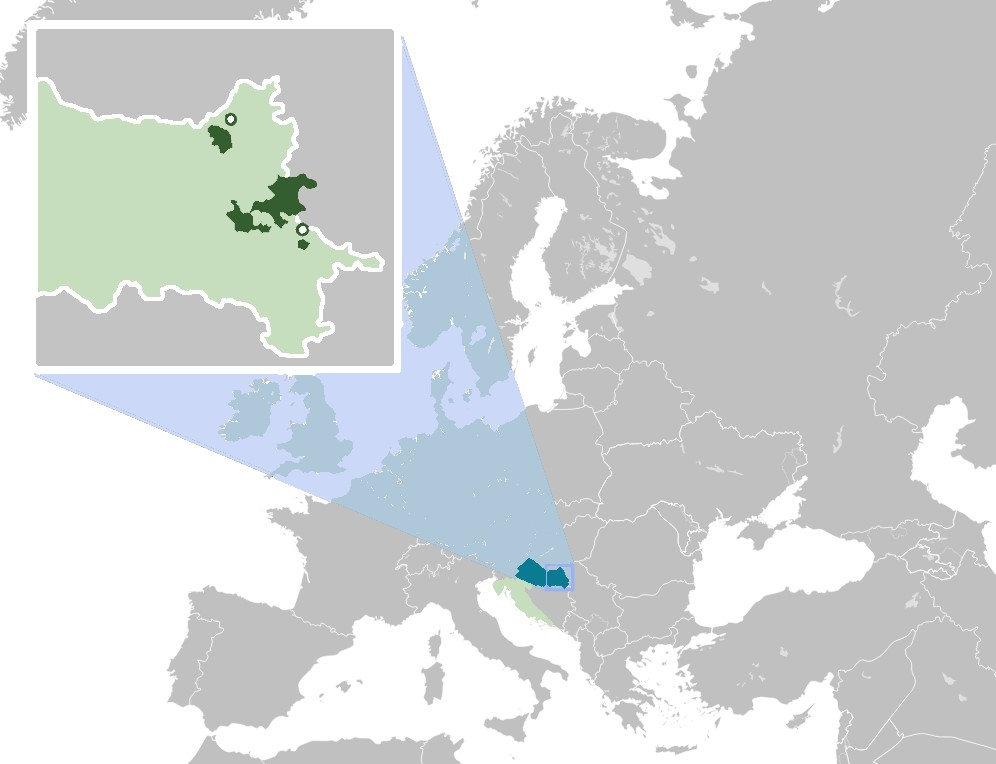 Map of Joint Council of Municipalities within the Croatia and Europe. The map is a polar orthographic projection Joint Council of Municipalities Croatia (except Joint Council of Municipalities) Europe (except Croatia)